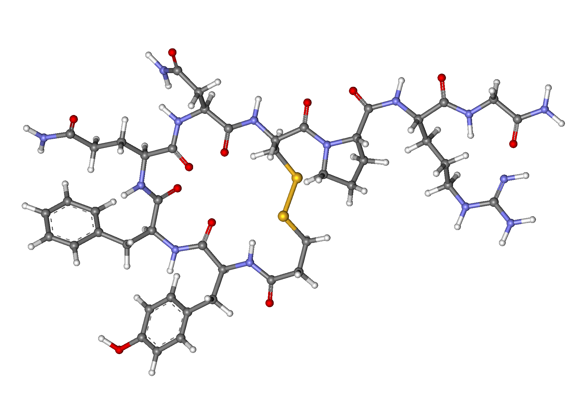 Ball-and-stick model of desmopressin molecule. The structure is taken from ChemSpider. ID 10481973